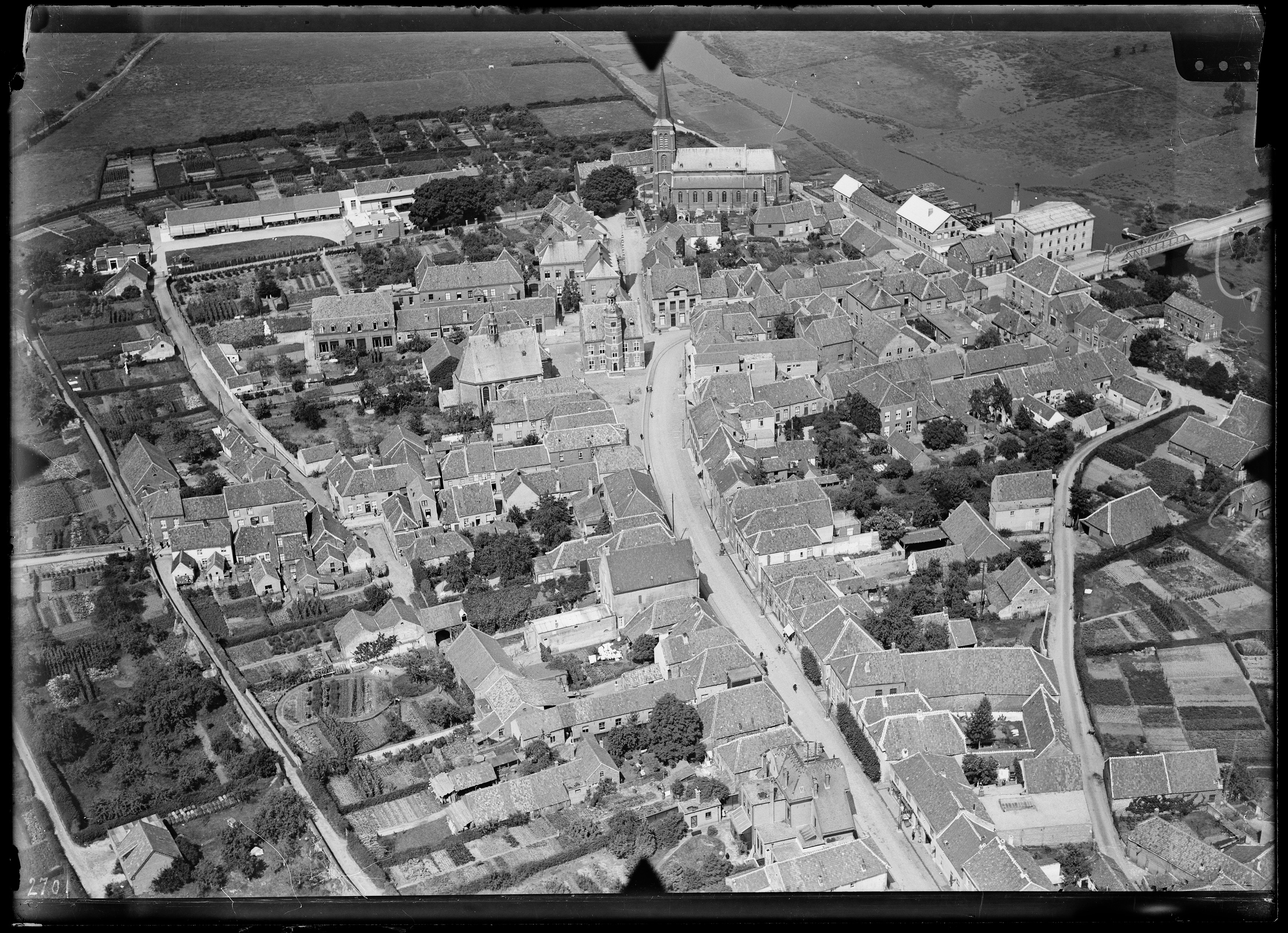 Aerial photograph of Gennep, The Netherlands